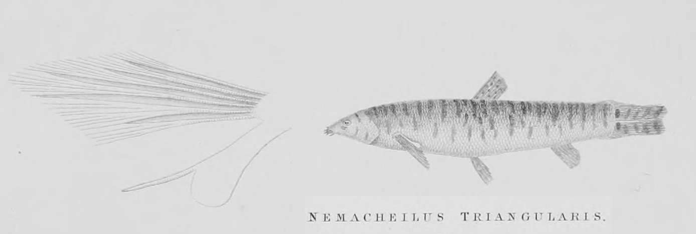 Nemacheilus triangularis = Syn. Mesonoemacheilus triangularis (Says FishBase)